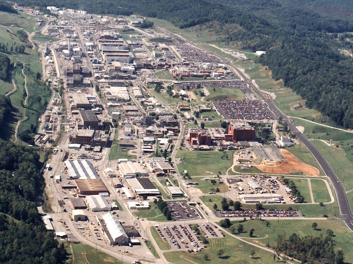 Recent aerial photo of the Oak Ridge Y-12 plant, taken from: and cropped for use with Y-12 Wikipedia article.